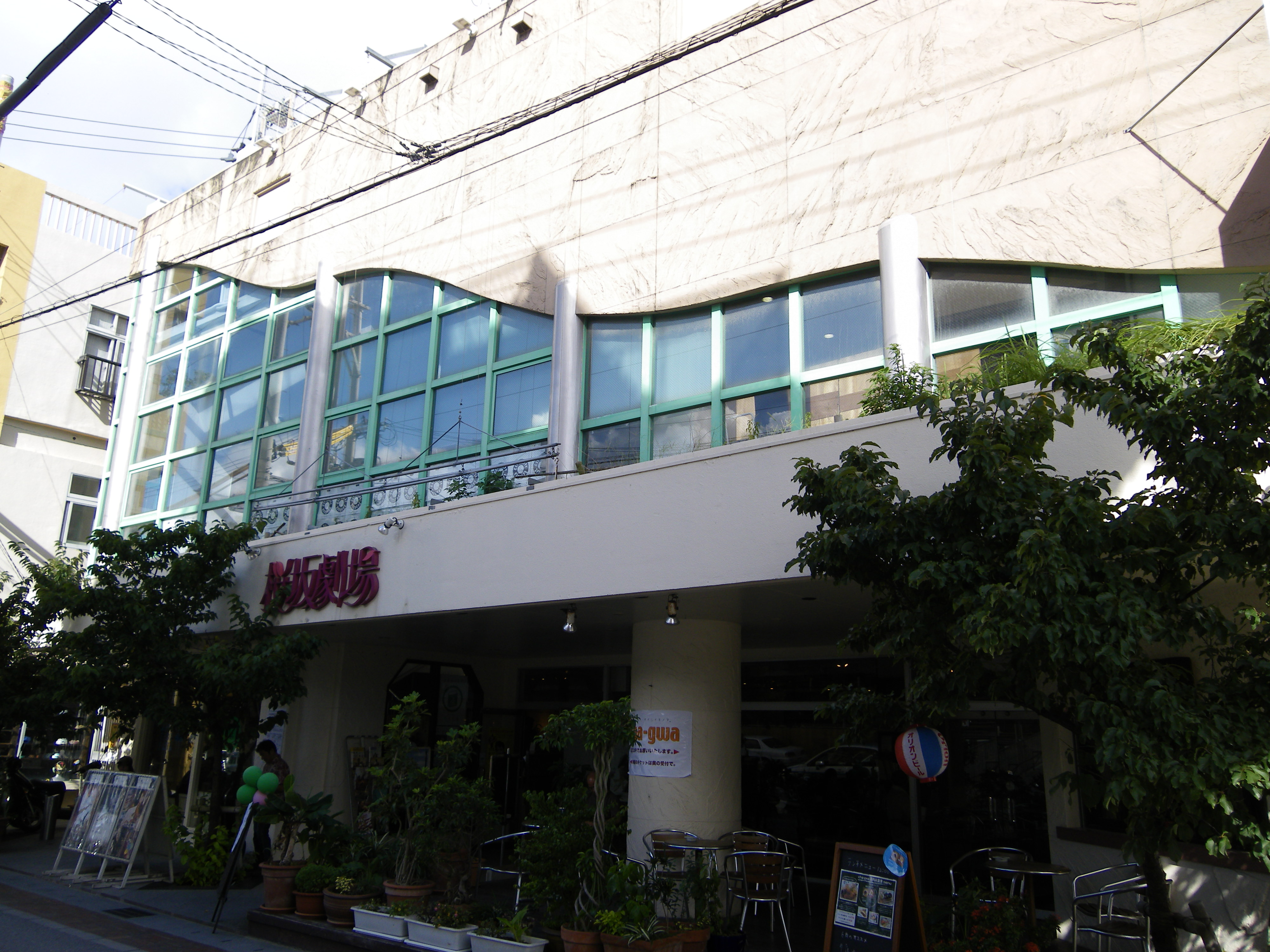 Sakurazaka Theater, Makishi District, Naha City, Okinawa Prefecture, Japan.